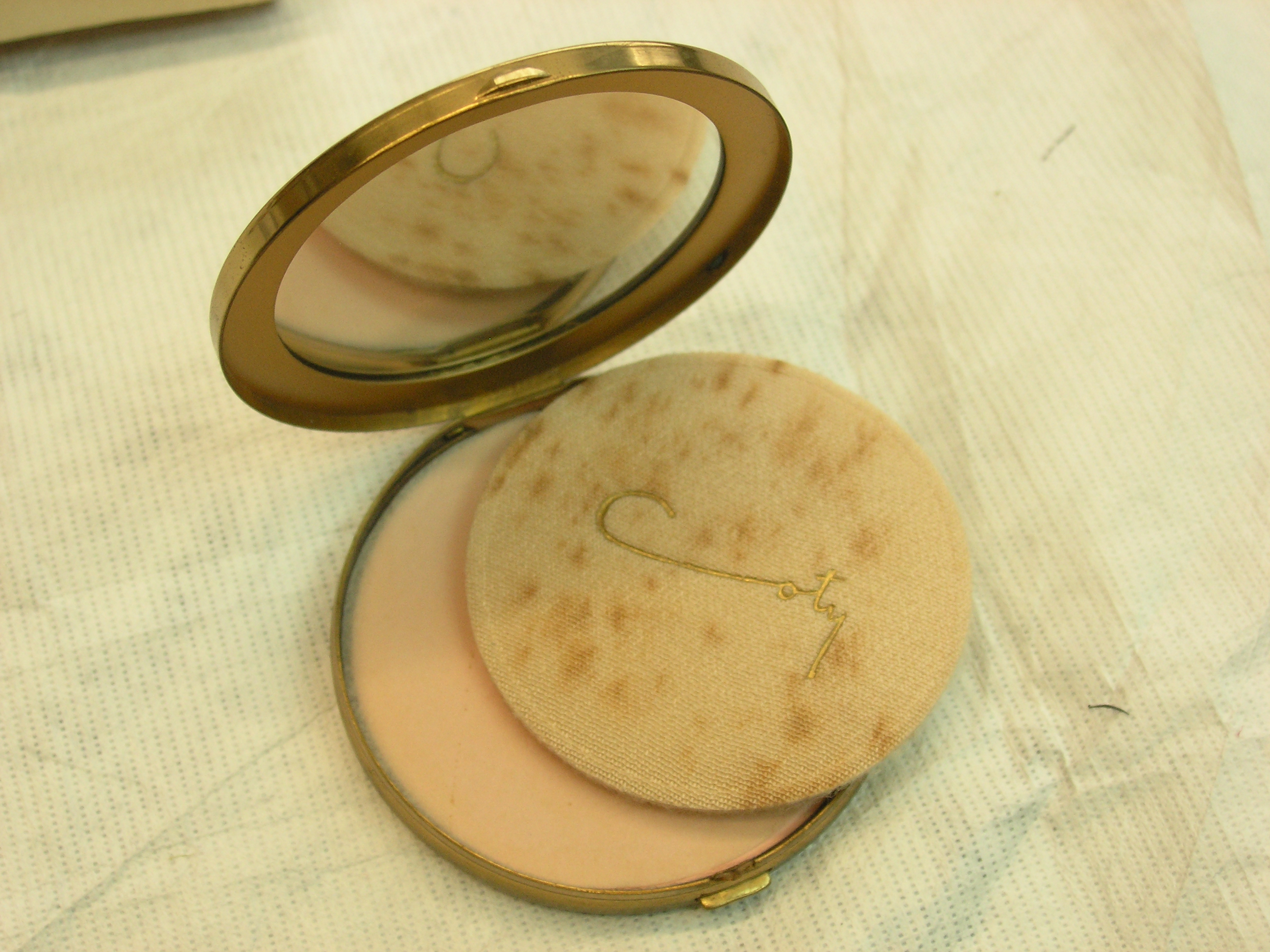 Compact, powder, brass coloured metal case with decorative (impressed paper) cover, containing unused pale pink face powder and powder puff; cardboard packaging states shade is `Vibrant' Serial No 095; Perfume `Muse'